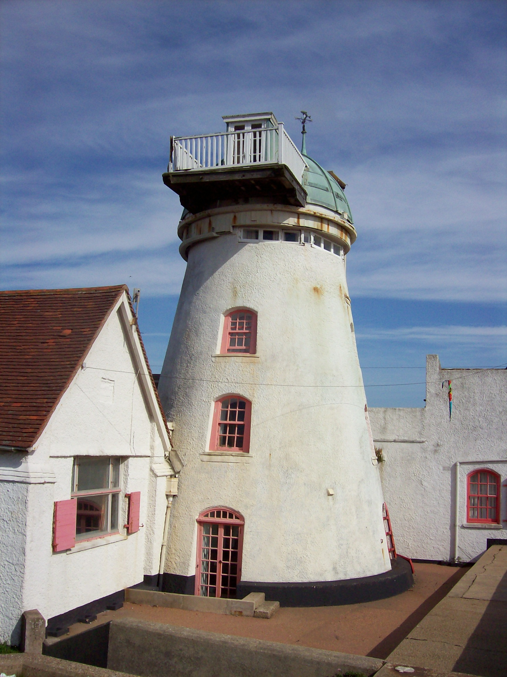 The house converted Fort Green Mill, Aldeburgh